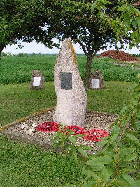 Memorial at former RAF Fiskerton.